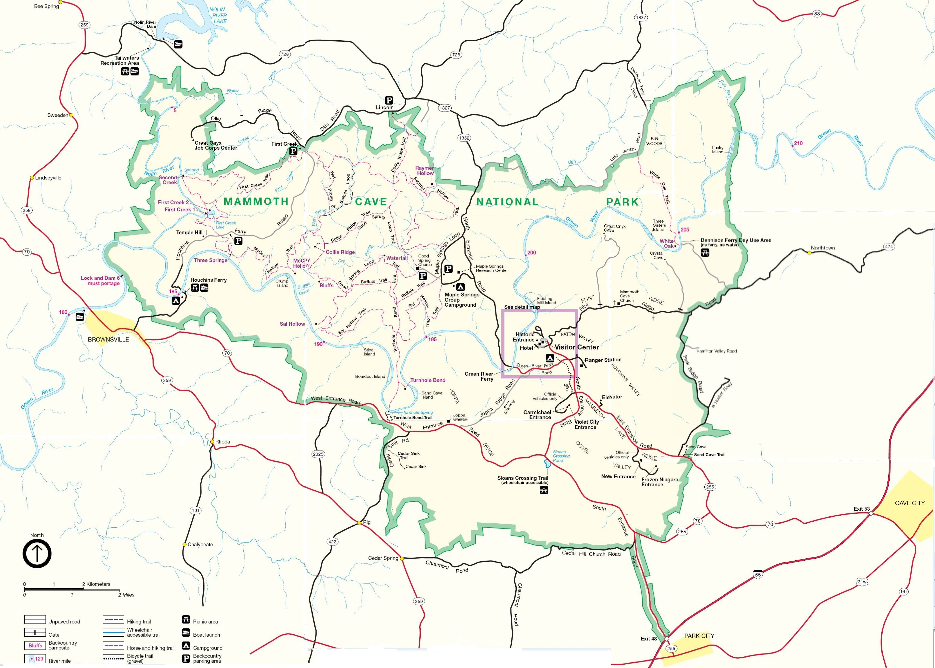 carte du Mammoth Cave National Park